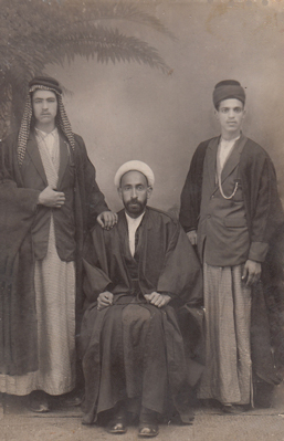 الشيخ جعفر القسام مع تلامذته في الخطابة